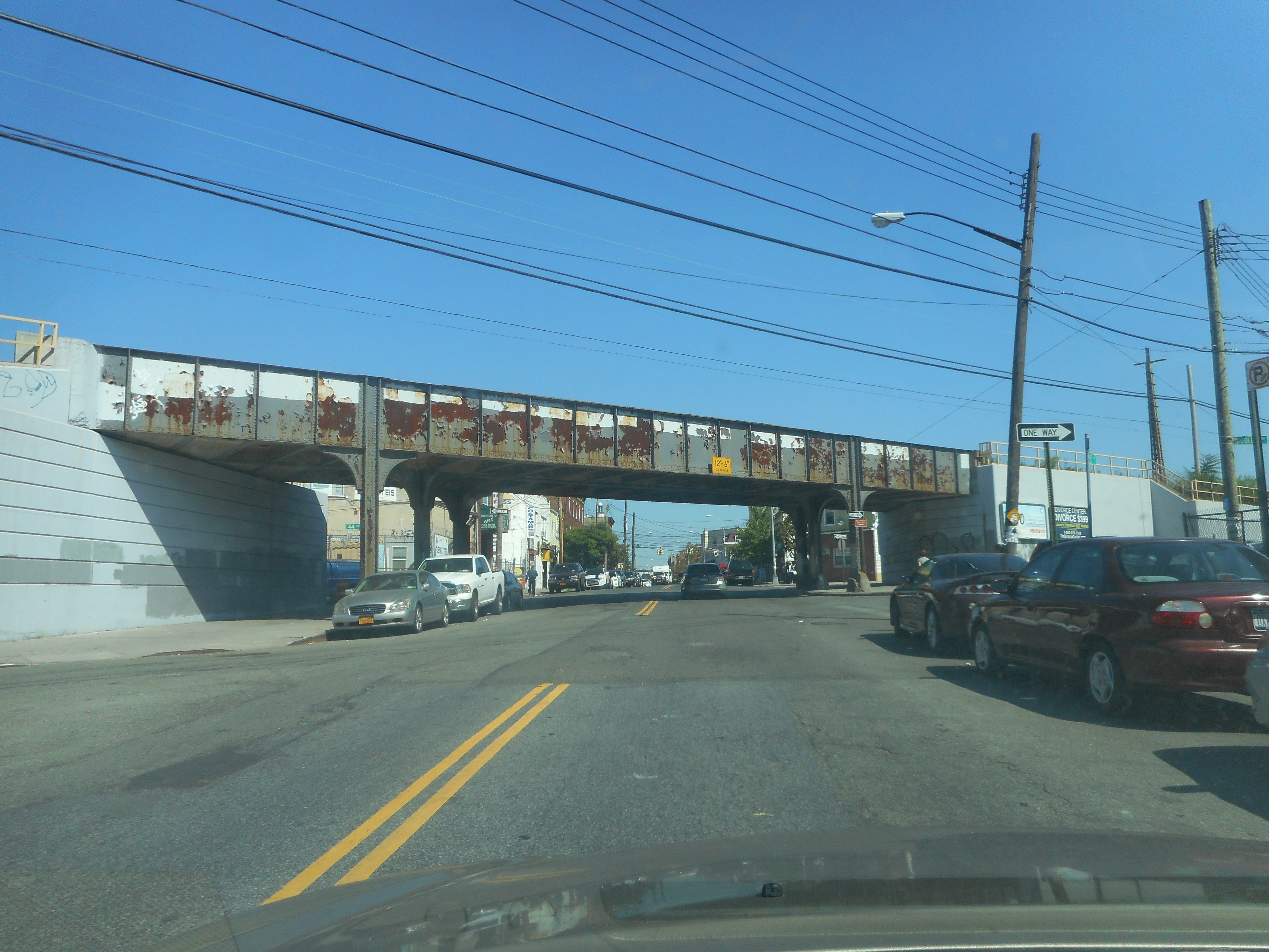 The LIRR Port Washington Branch railroad bridge over National Street in the Corona section of Queens, New York City, which was once the site of Corona Long Island Rail Road station.